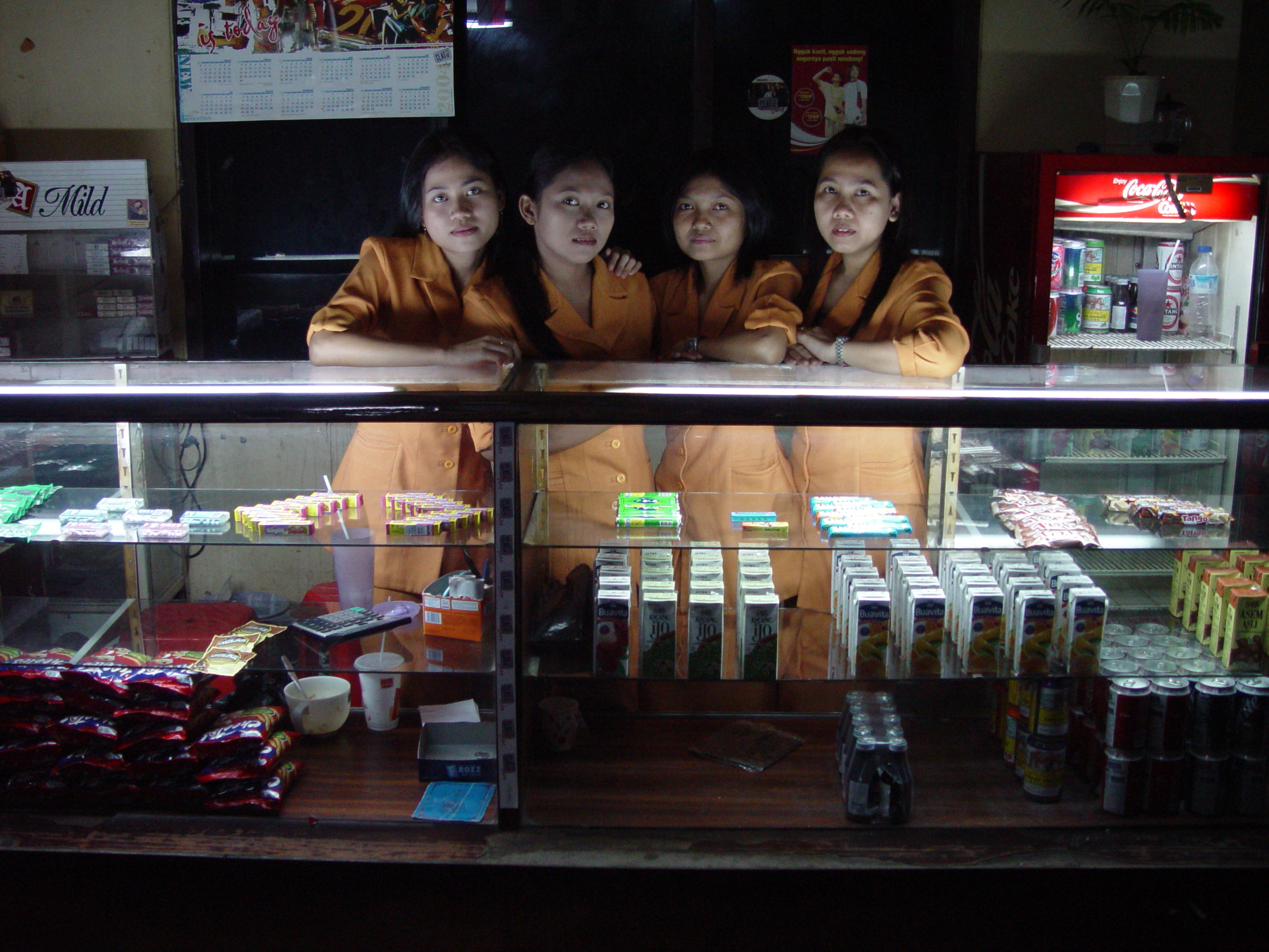 Mall cultural in Jakarta, Indonesia.